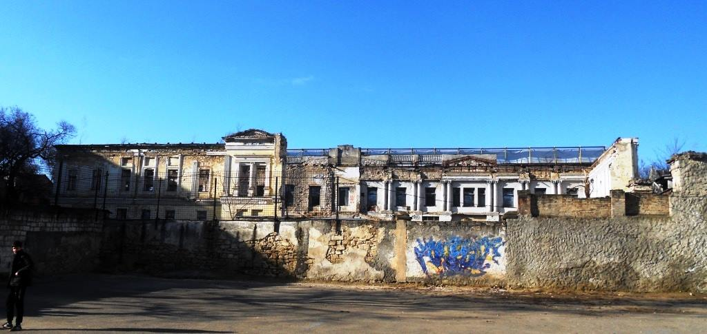 Rîșcanu-Derojinschi urban mansion in Chișinău